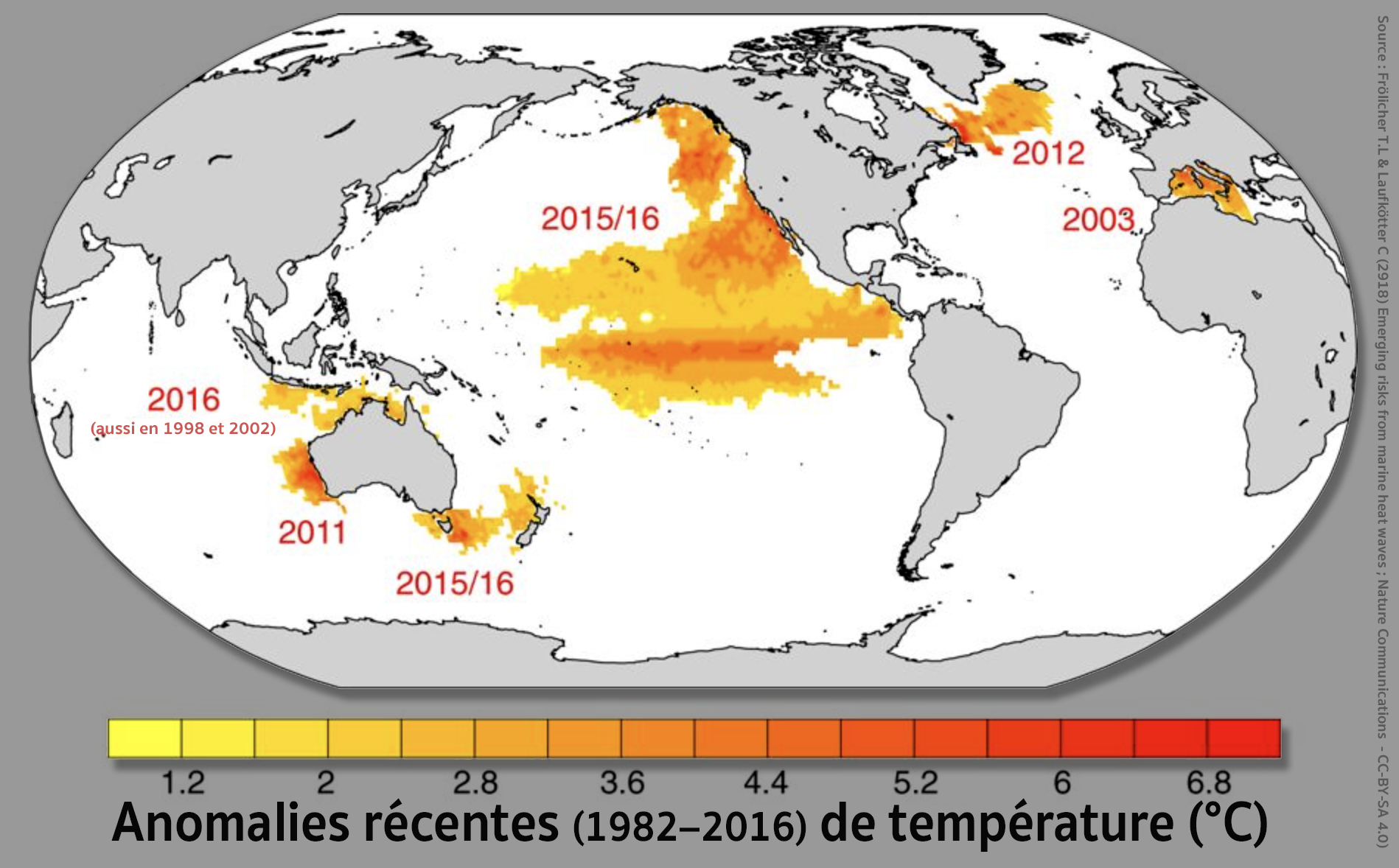 Prominent recent major marine heat waves that are documented and analyzed in the literature. The figure shows the maximum sea surface temperature anomaly in regions where temperature exceeds the 99th percentile using NOAA’s daily Optimum Interpolation sea surface temperature dataset. This picture is made from a map published under CC-BY-SA 4.0 open licence in 'Nature Comments' le 13 février 2018. The red numbers indicate the year of the MHW occurrence. The 99th percentile is calculated over the 1982–2016 reference period. The map was created using the NCAR Command Language (